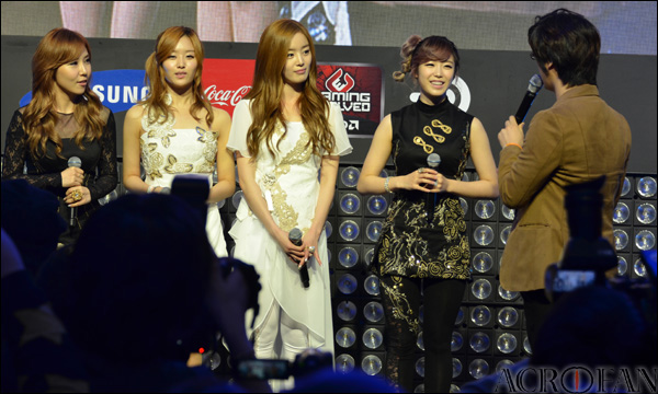 김형태 AD는 스테이지에서 시크릿을 향해 서는 등, 시종일관 흐믓한 표정을 감추지 못했다. (Secret at blade and Soul launch, talk)